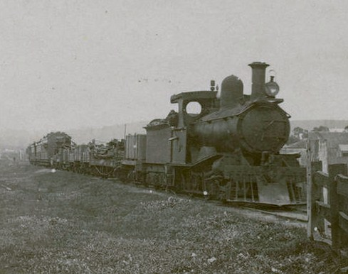 One of the two MRWA P class steam locomotives with a goods train near Midland Junction, Western Australia. This photograph was taken before 1930, because both members of the class were written off in 1929 and scrapped. See Gunzburg, Adrian (1989). The Midland Railway Company Locomotives of Western Australia. Melbourne: Light Railway Research Society of Australia. p. 22. ISBN 0909340277.